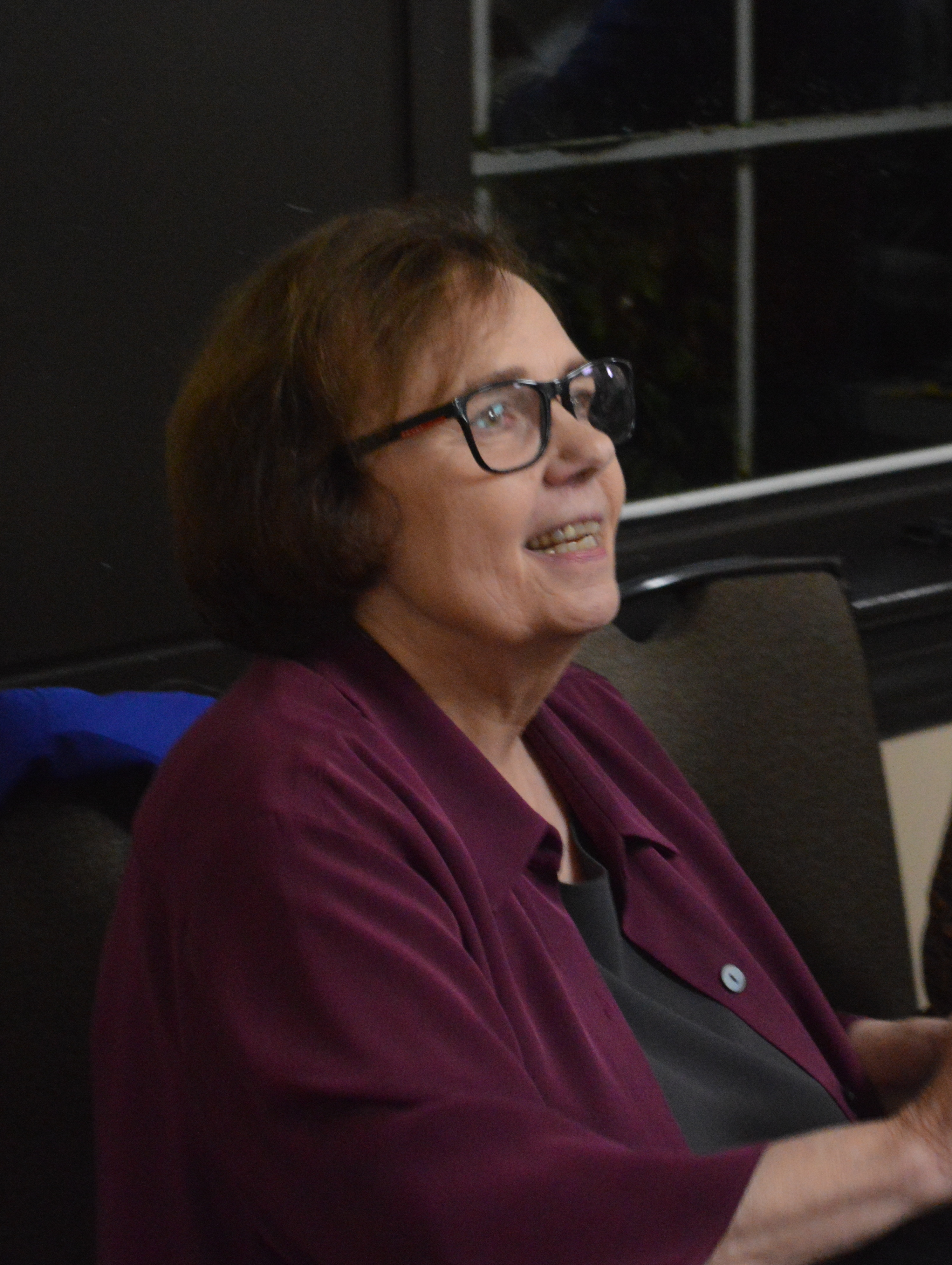 Gail Collins at Rutgers University singing copies of her new book, No Stopping Us Now: The Adventures of Older Women in American History. She was the Annual AADC L'Hommedieu Lecturer at Trayes Hall, Douglas Student Center, New Brunswick, NJ on October 22nd, 2019.